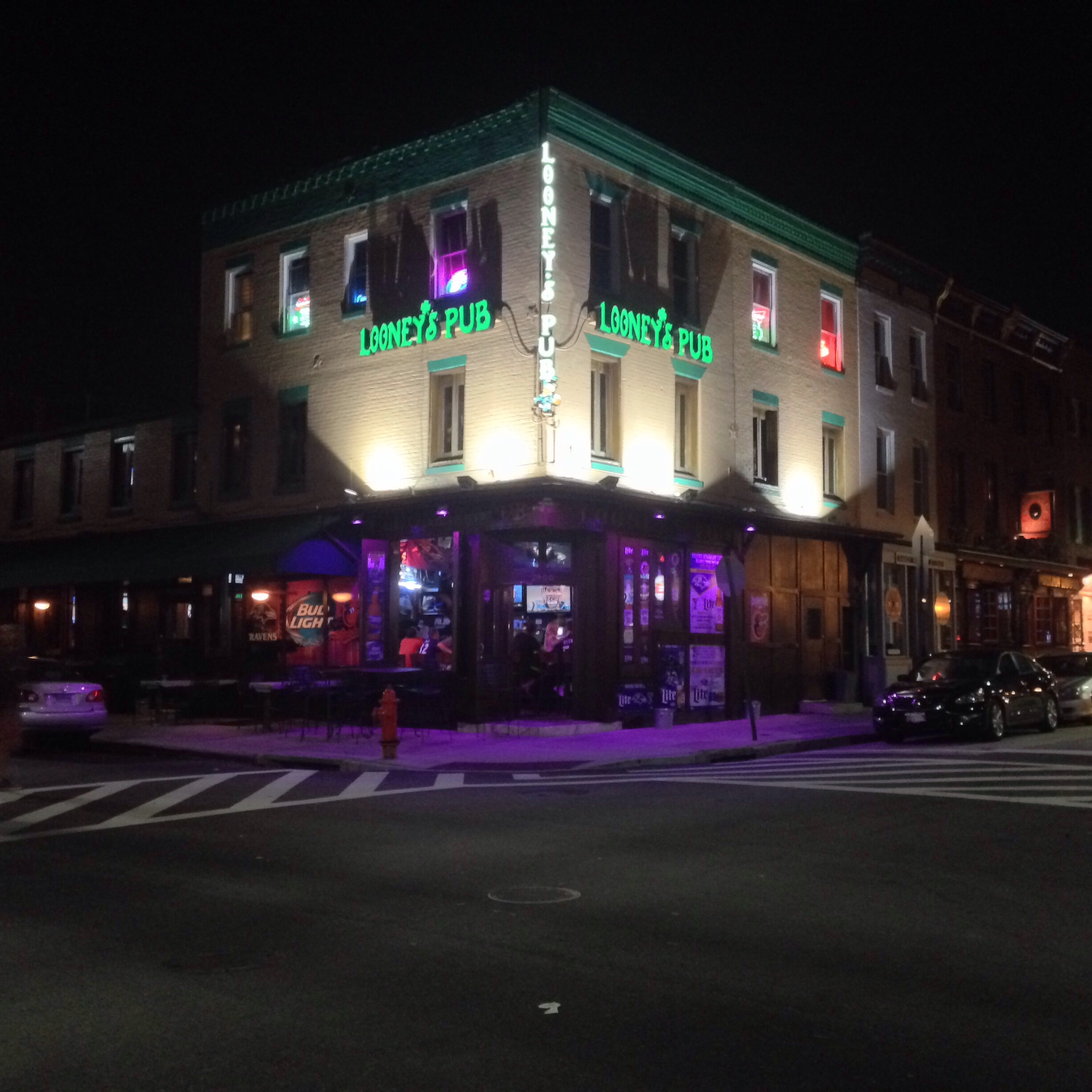 Canton Location. Taken with Apple iPhone 5 back camera 4.12mm f/2.4